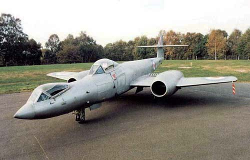 Gloster Meteor Prone Position concept aircraft. On display at RAF Cosford aerospace museum (Shropshire, UK) as of 2011